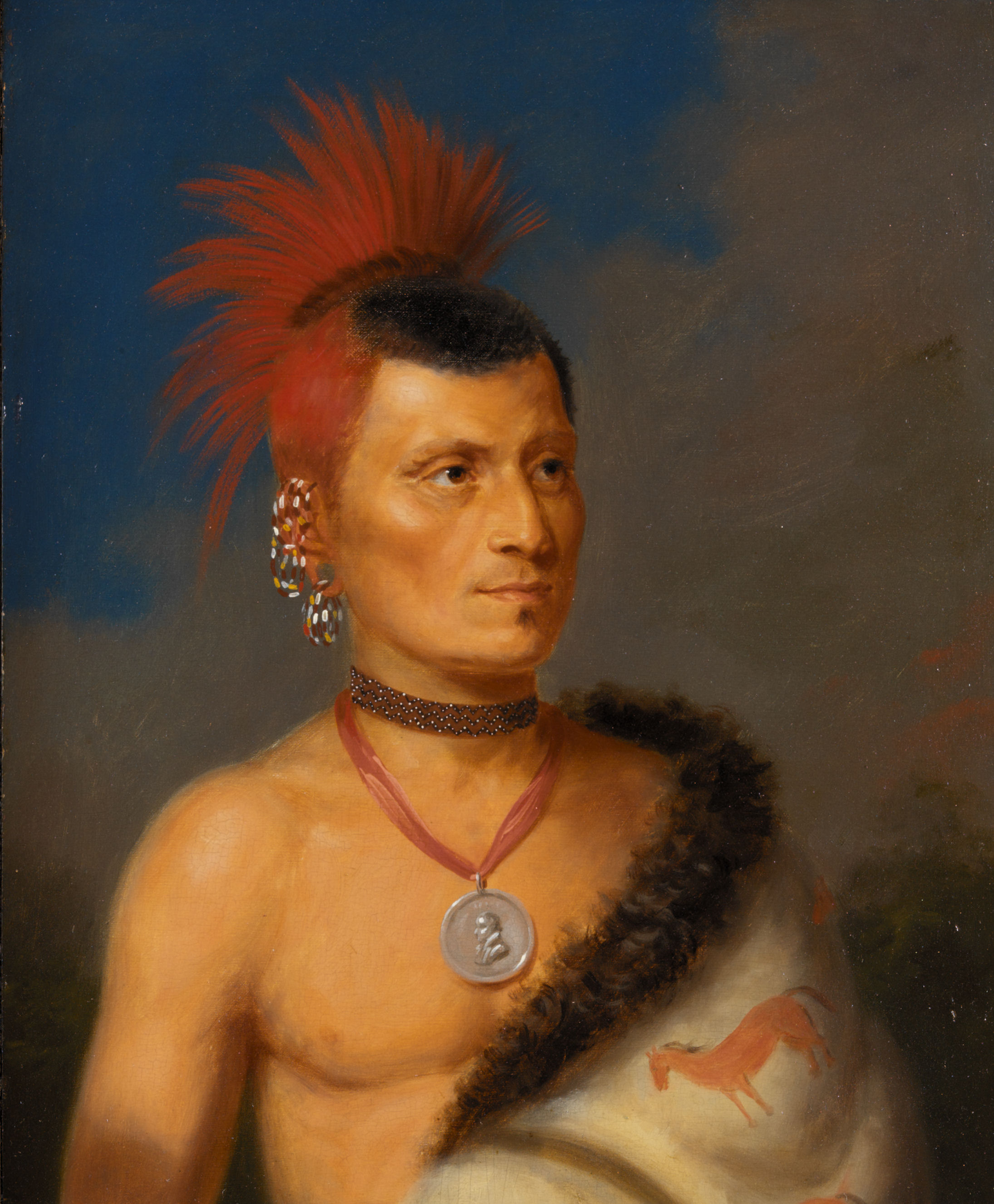 Pawnee chief wearing a "cloak" of bison with paintings.